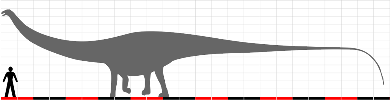 Size comparison between Dinheirosaurus lourinhanensis and a human. Rectangular boxes are one 1 metre (3.3 ft) long and 0.5 metres (1.6 ft) tall.